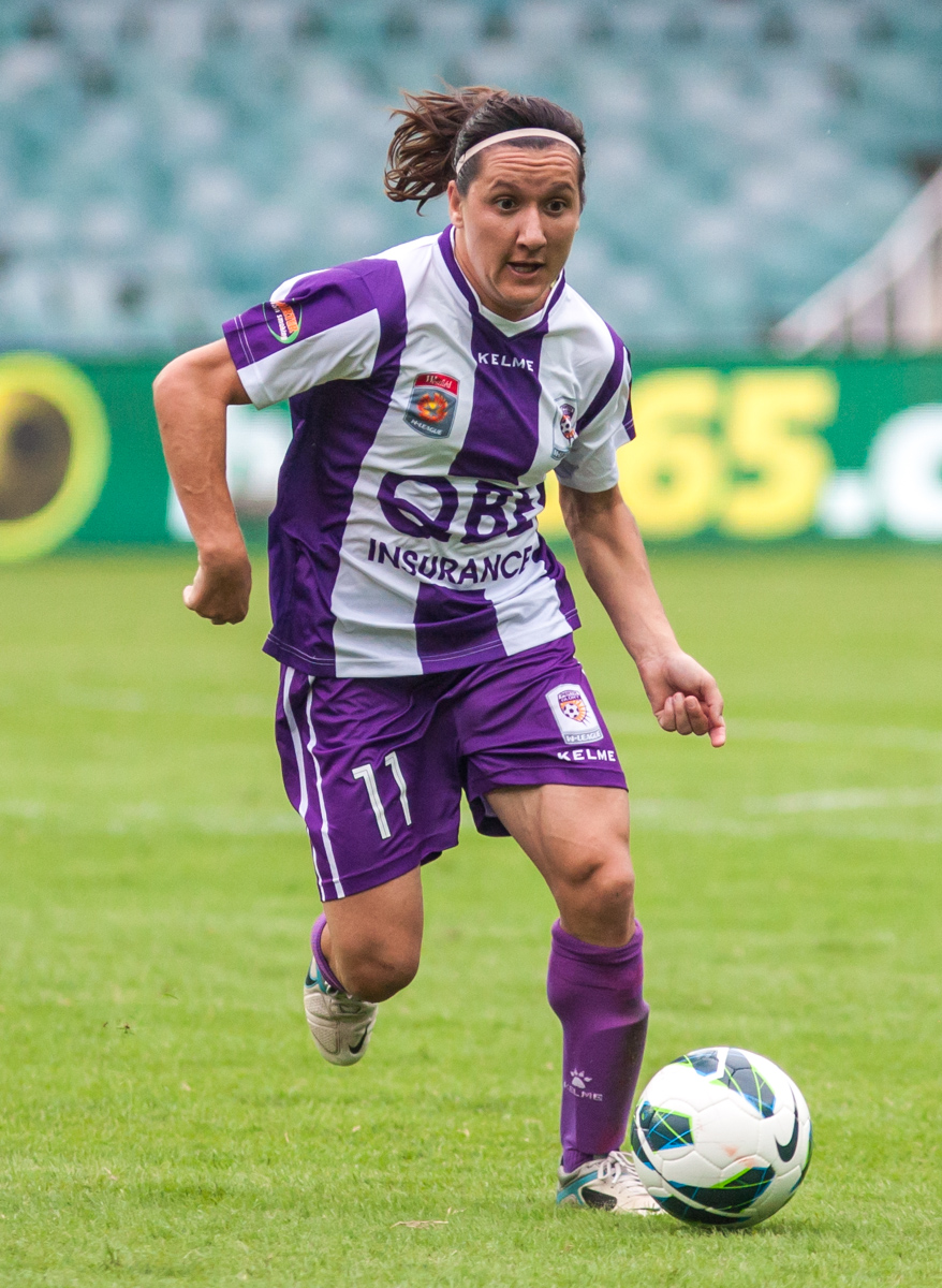 Lisa De Vanna playing for Perth Glory FC in the 2012/13 W-League season against Sydney FC at the Sydney Football Stadium.